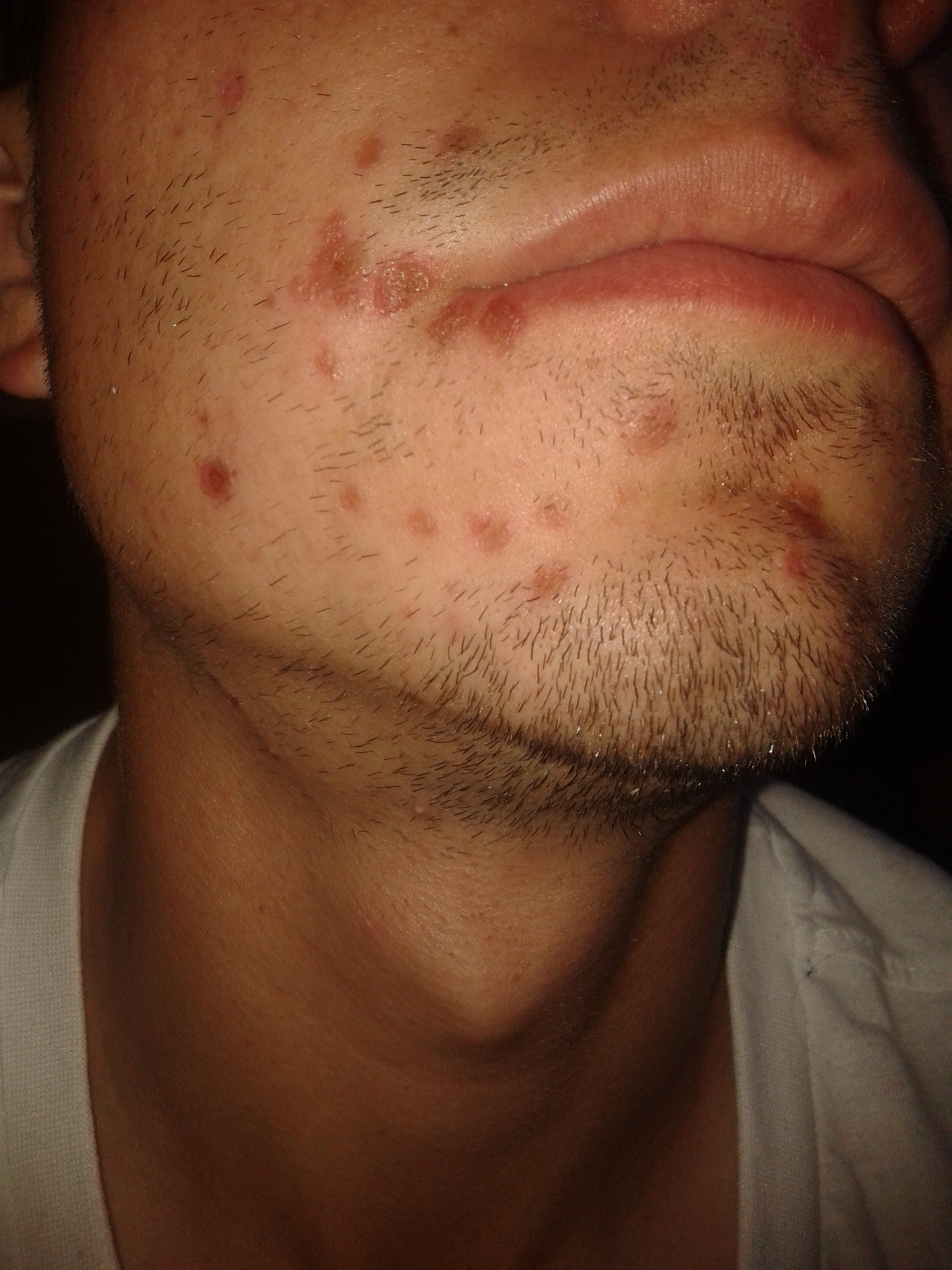 Adult man with this disease (Exanthem)